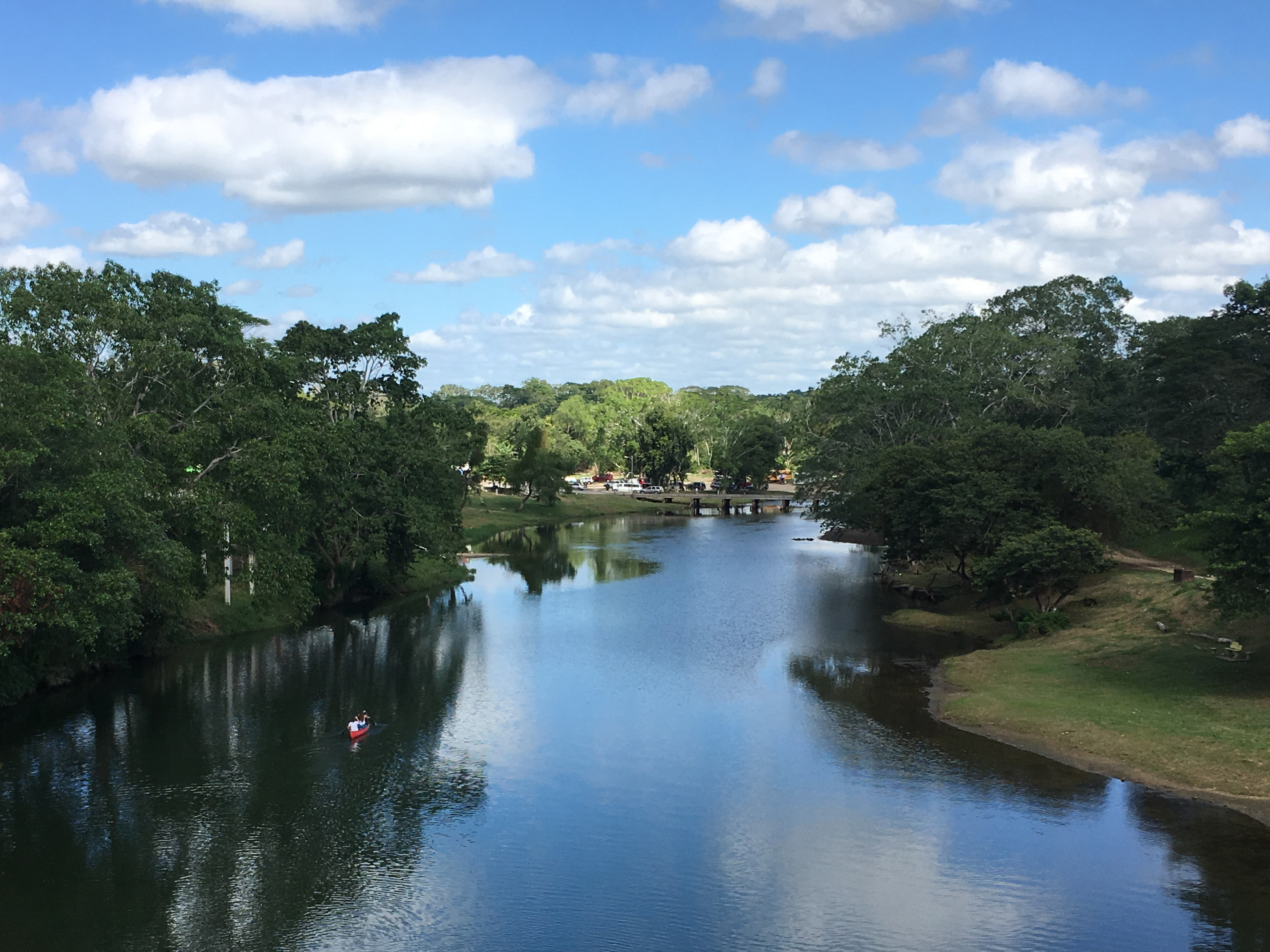 The Macal River as seen from the Hawksworth Bridge in San Ignacio, Belize